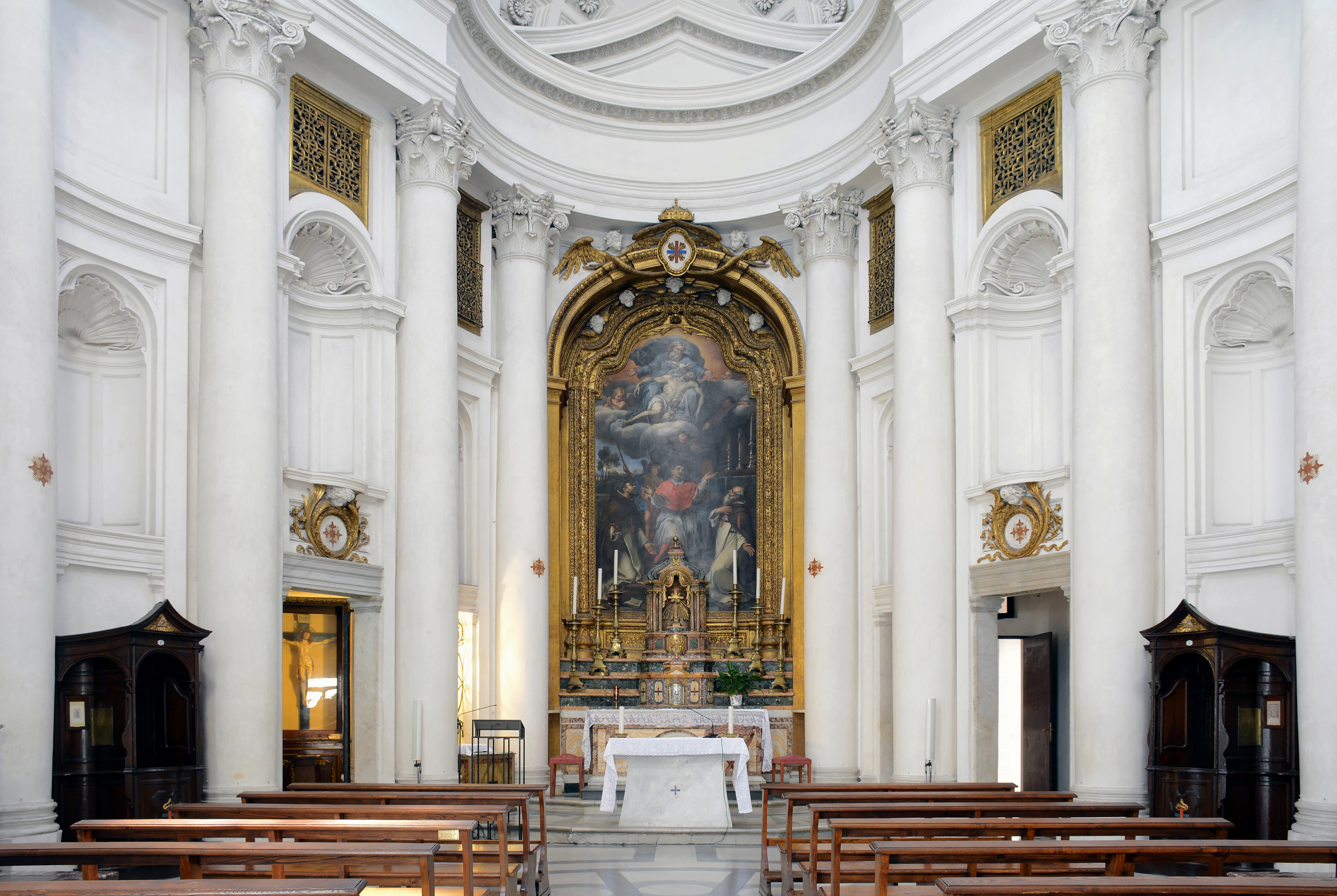 San Carlo alle Quattro Fontane (Rome) - Intern